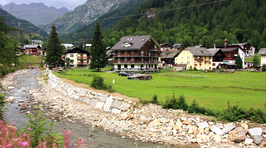 View of Ponte, Formazza, VCO, Italy